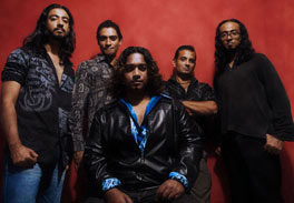 LBG The Rock Band From Chennai,India-Rocking On